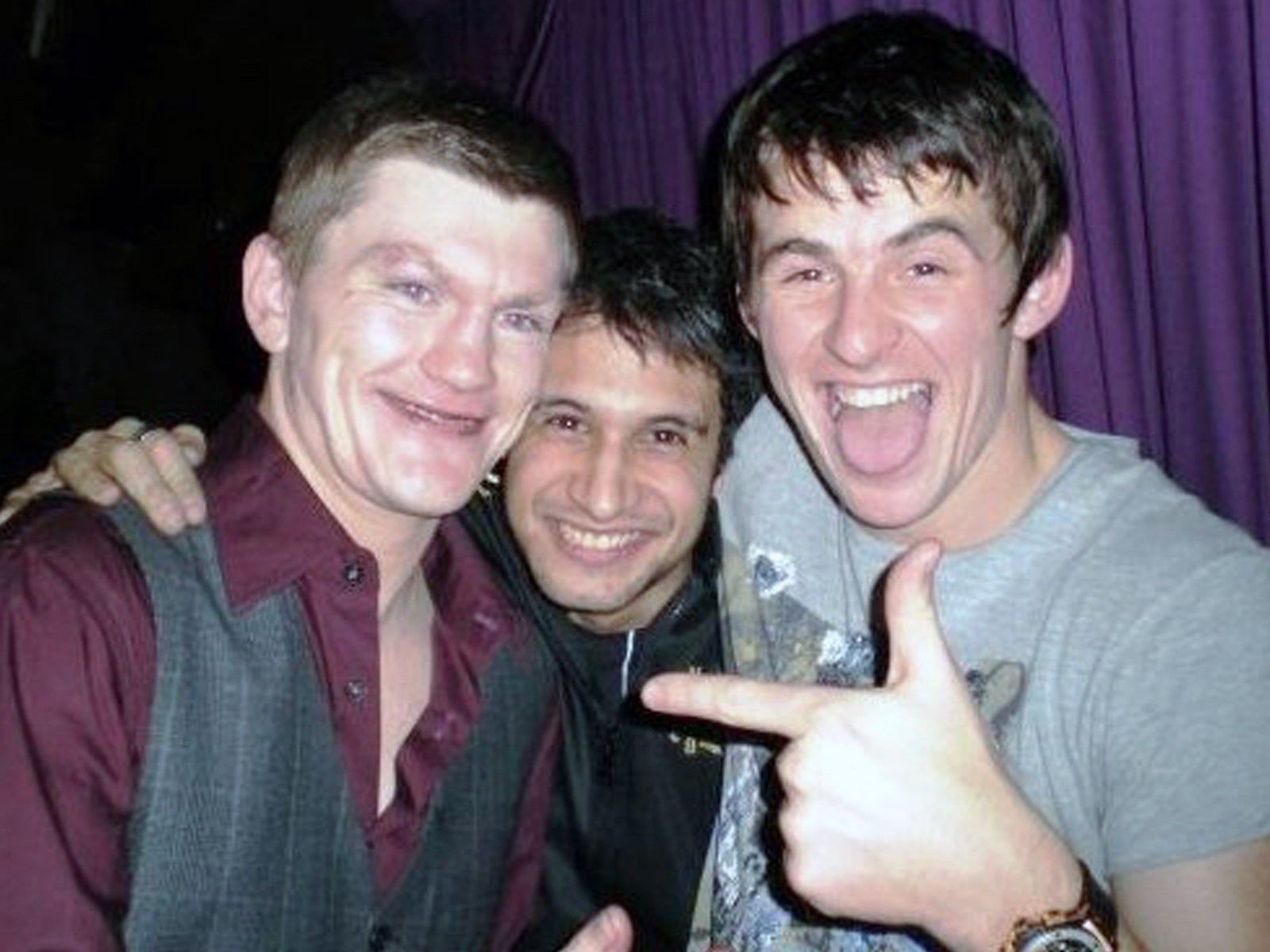 Premier league footballer Joey Barton pictured with Ricky Hatton in 2010 at Tup Tup Palace nightclub, Newcastle upon Tyne, UK.